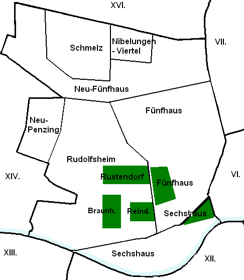 Map of the district parts of Rudolfsheim-Fünfhaus in Vienna, Austria.